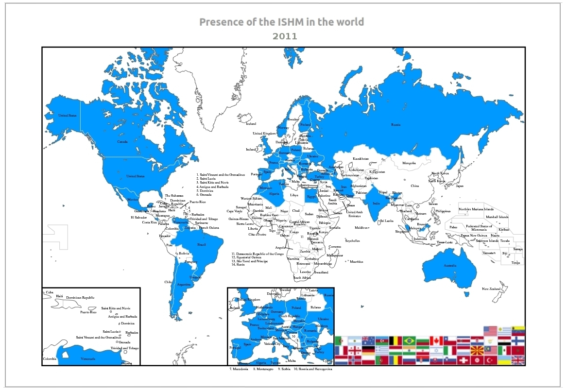 I created this worldmap on the presence of the ISHM in the world, according to membership and delegations, updated data of september 2011 programme. (VI International Meeting of the ISHM)